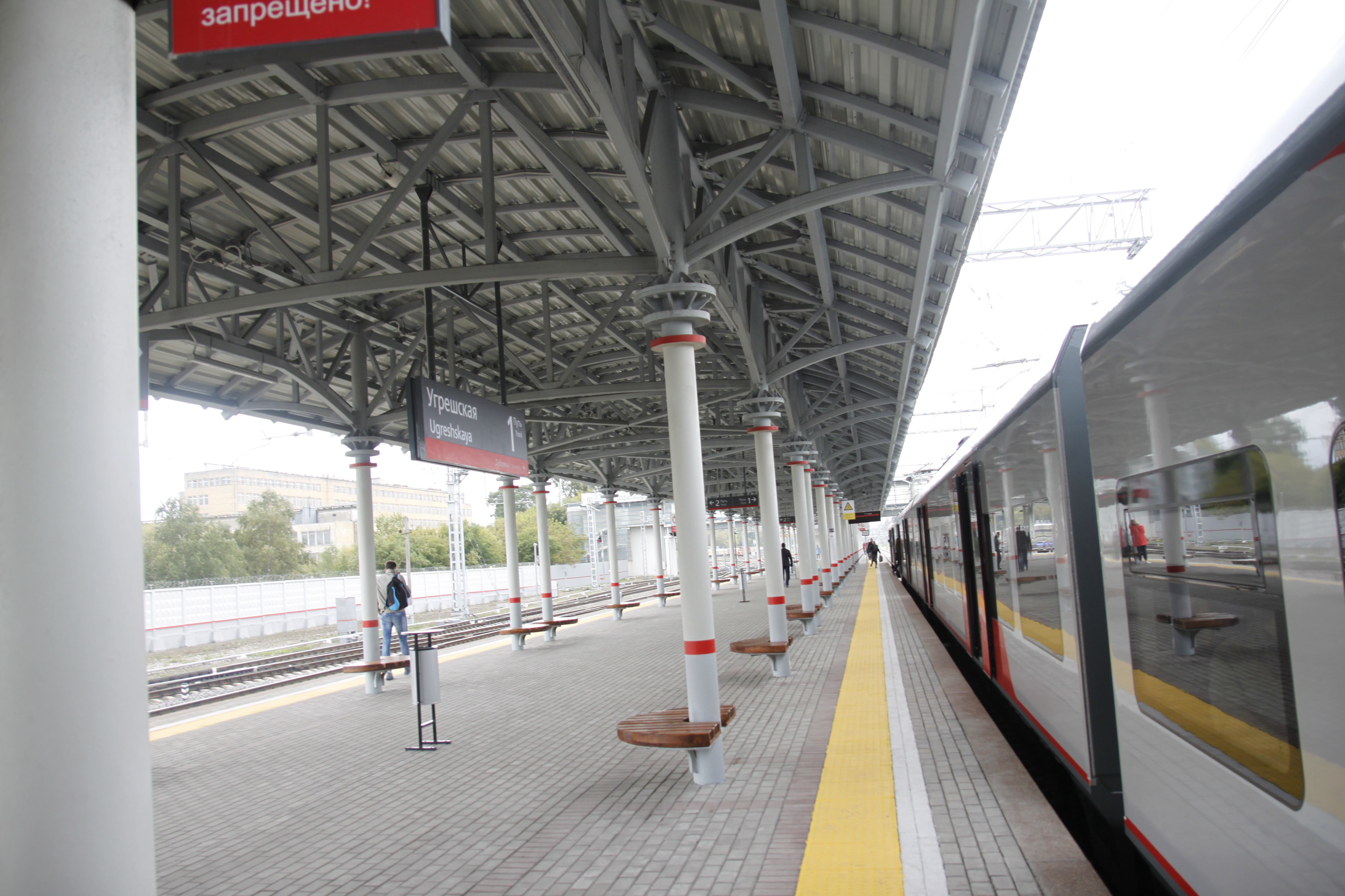 Ugreshskaya MCC station